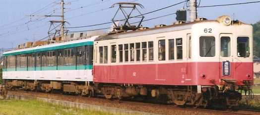 Takamatsu-Kotohira Electric Railroad No 62 and other two carriages ruuninng between Shirayama and Ido